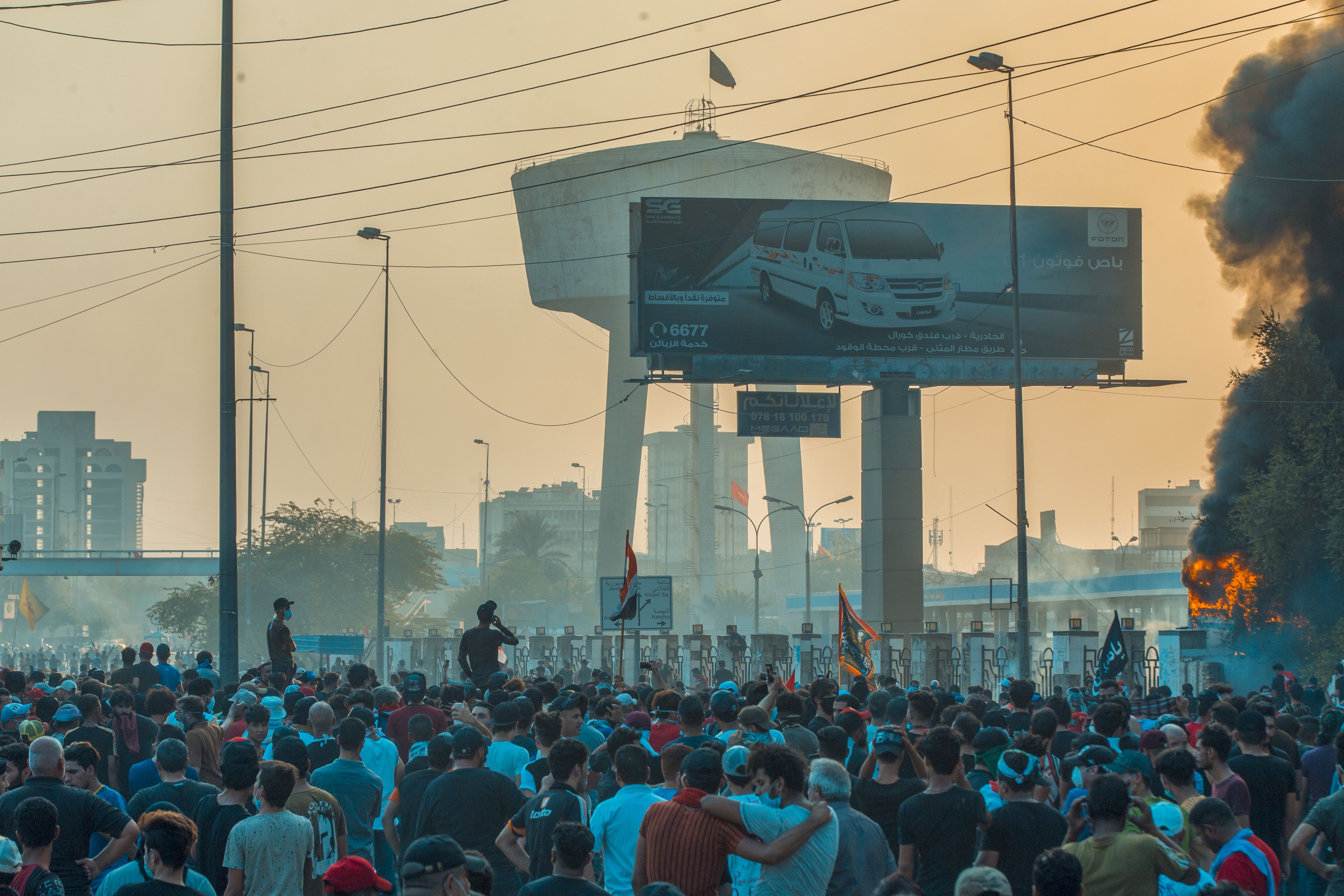 Mass outrage broke out on October 2-10 after the crackdown and sniping of protesters in Aviation Square on the second day of the revolution - Photo by Mustafa Nader